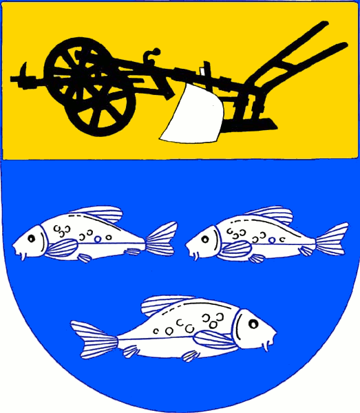 Municipal coat of arms of Rybitví village, Pardubice District, Czech Republic.